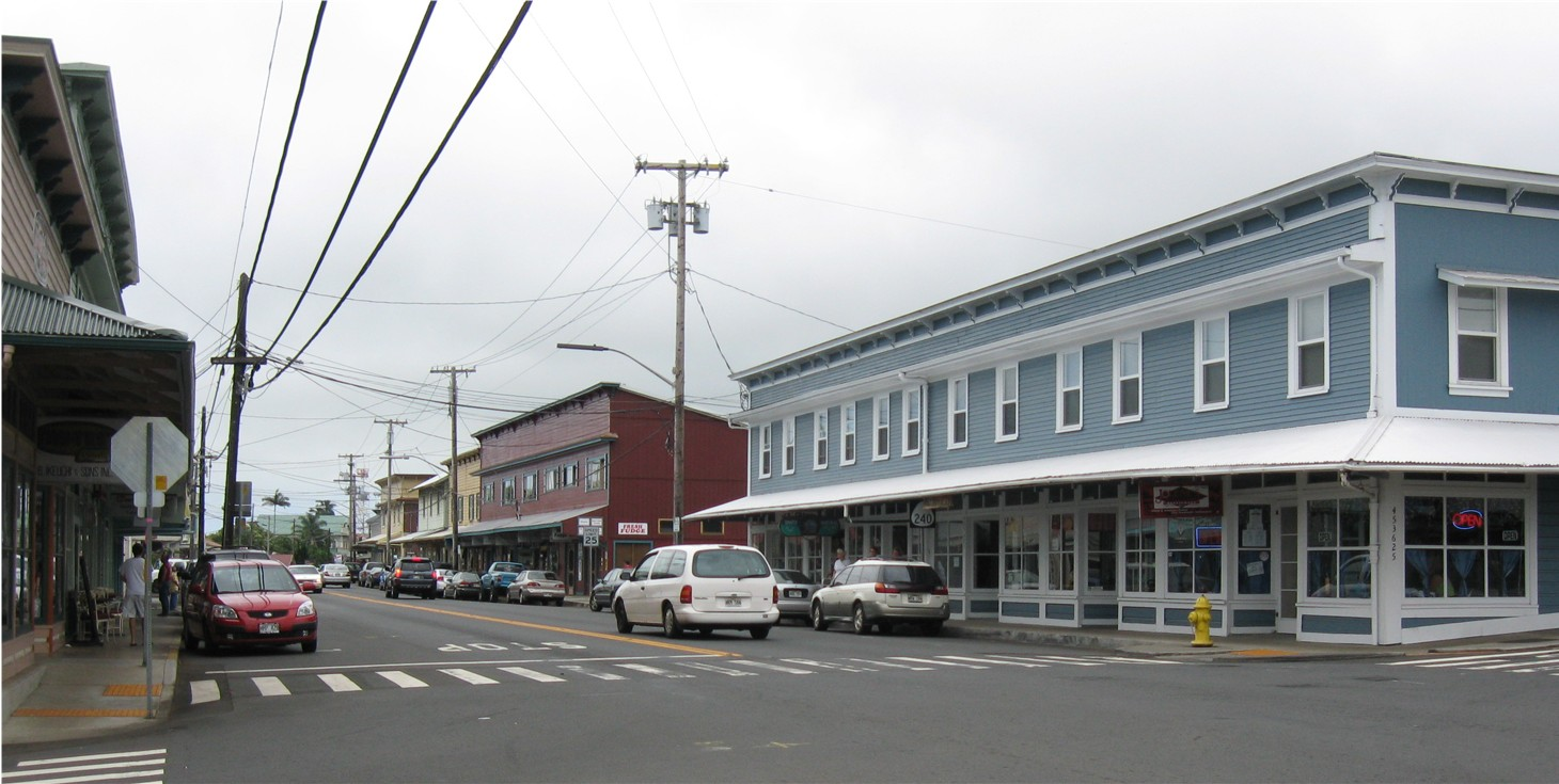 Historic main street of Honoka'a, Hawaii